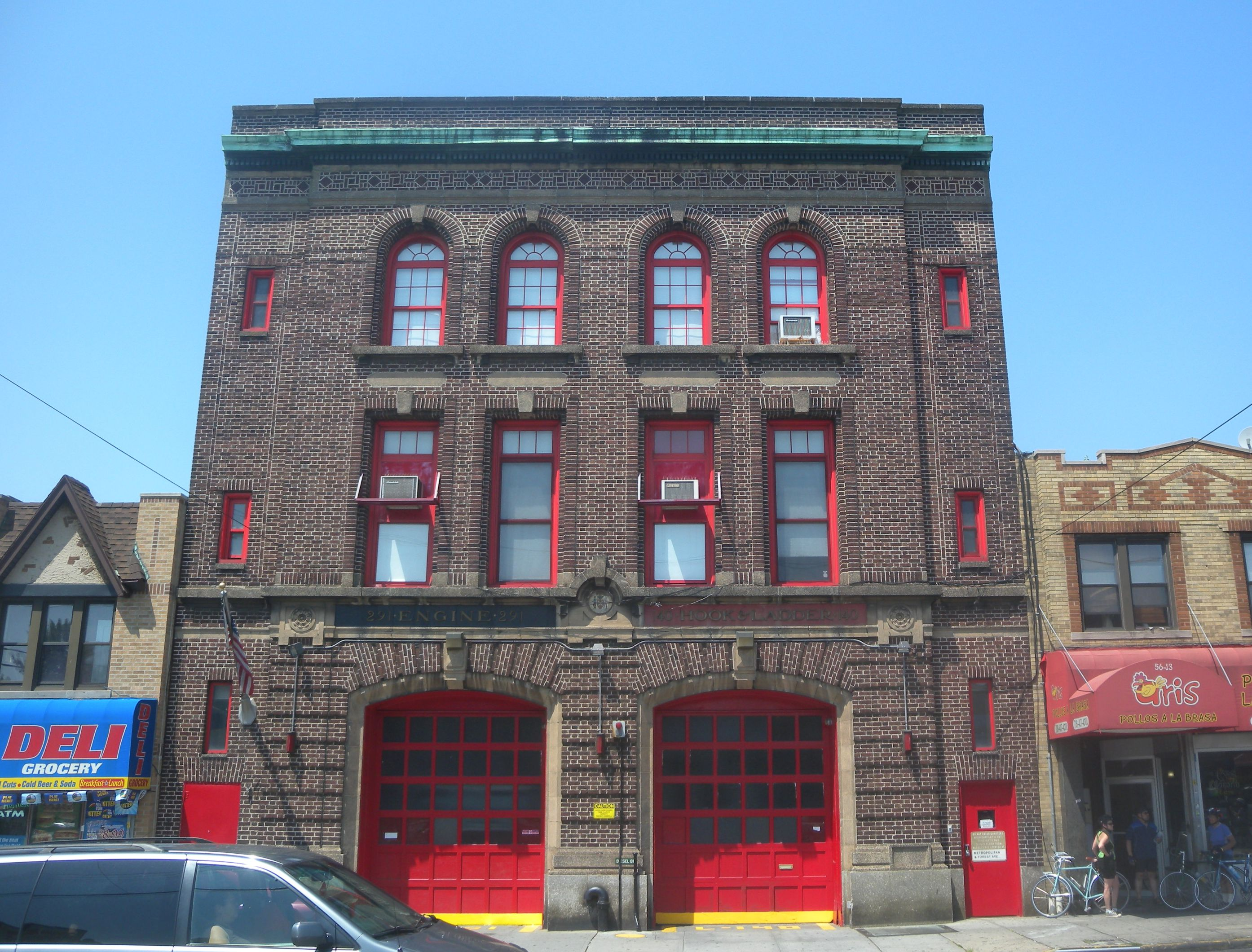 Looking north across Metropolitan Avenue at firehouse on a sunny afternoon.